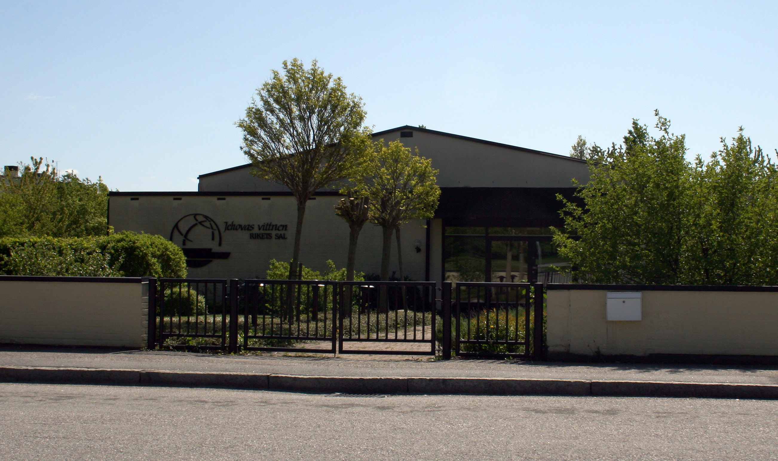 Rikets sal (Kingdom Hall) at Glimmervägen in Lund, Sweden som den såg ut 2009. Byggnaden har sedan renoverats/byggts om.